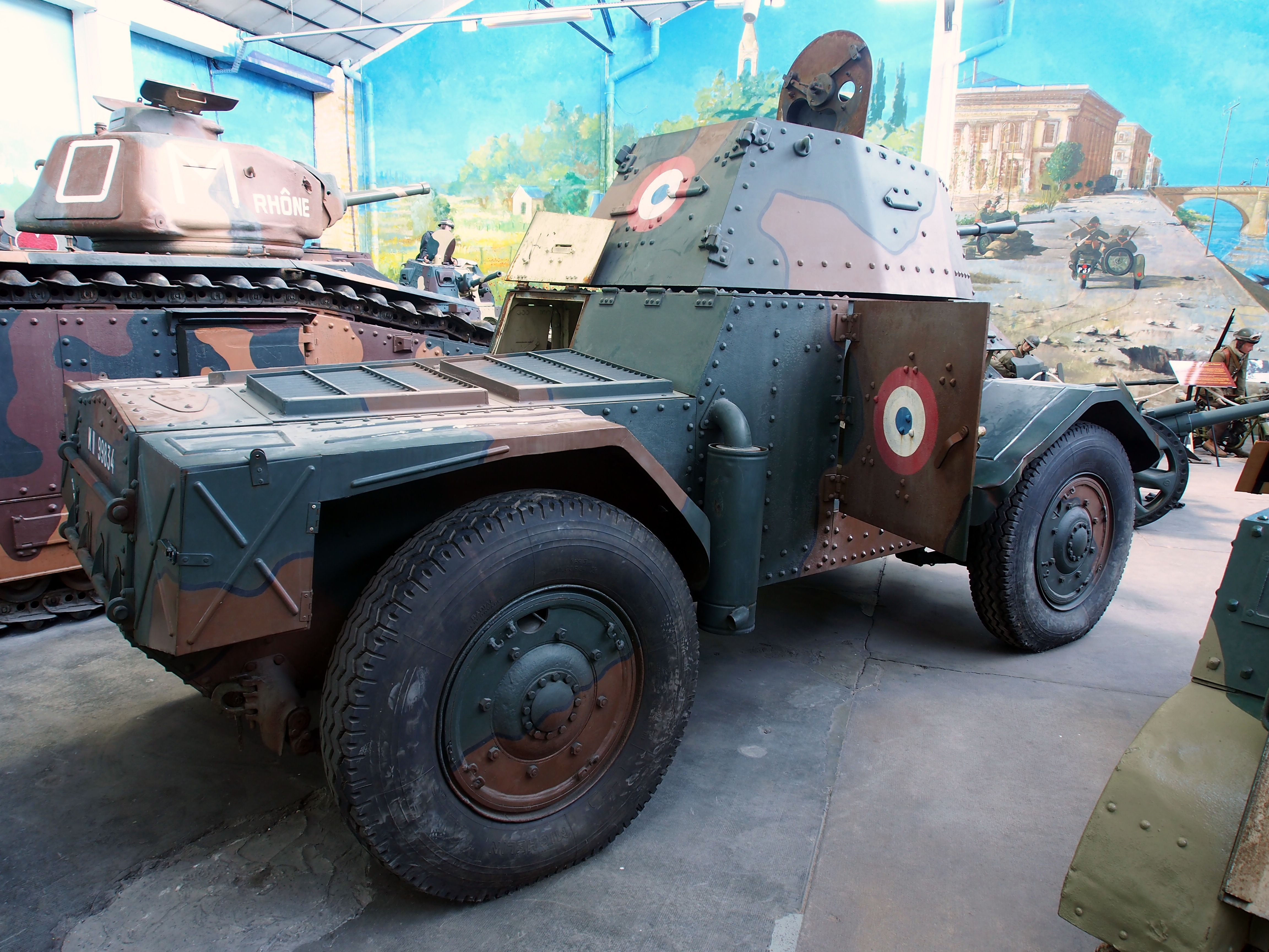 Photographed in the Musée des Blindés, France.